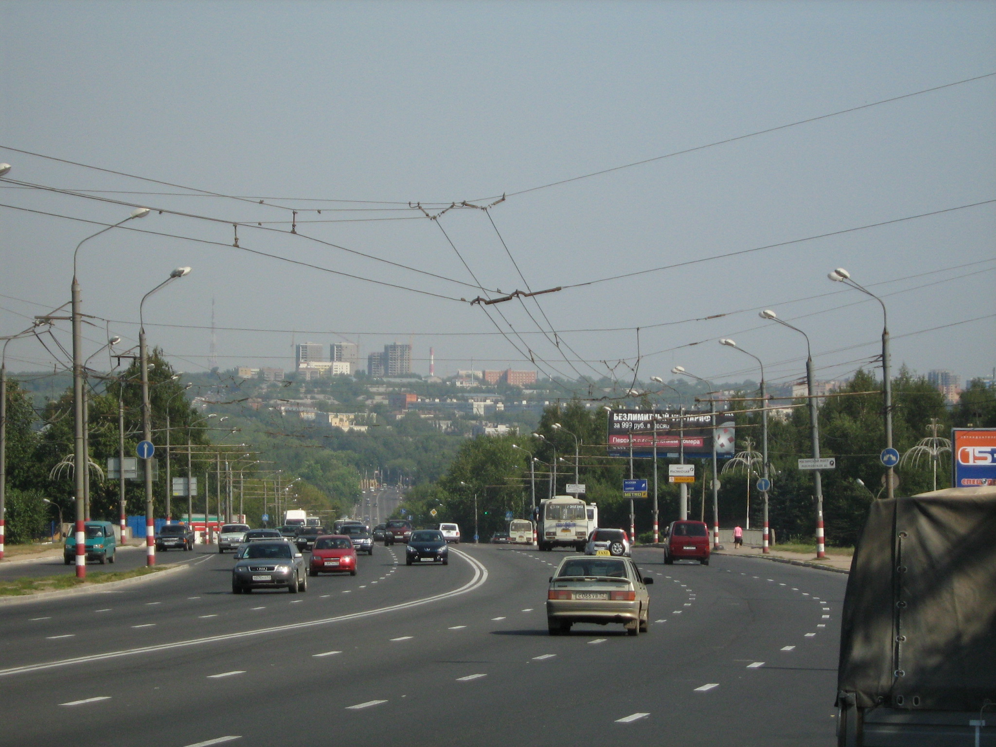 Looking north along Nizhny Novgorod's Gagarin Ave from around Myza (Prioksky District) toward Sovetsky District.